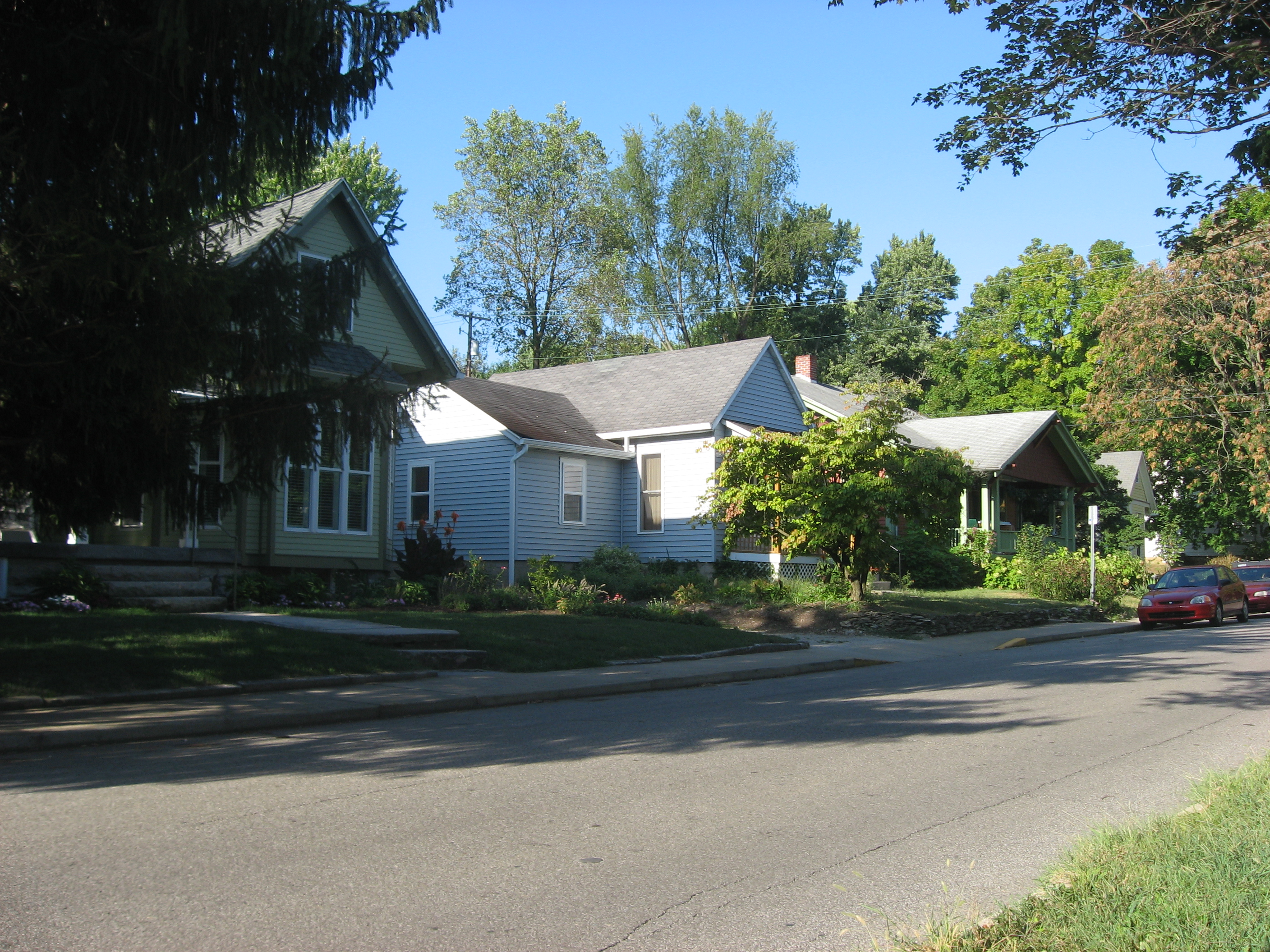 Houses on the southern side of the 700 block of Fourth Street in Bloomington, Indiana, United States. The closest three houses, all built in the 1920s, are part of the Steele Dunning Historic District, a historic district that is listed on the National Register of Historic Places. The farthest house, built in 1900, lies outside the district's boundaries.